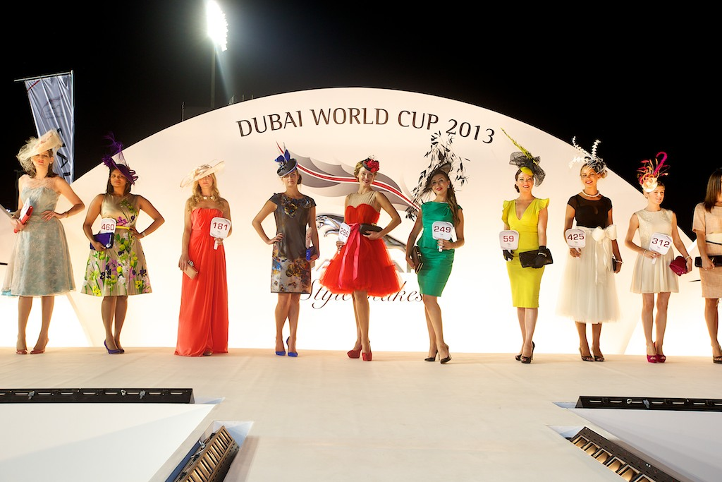 Dubai’s racing calendar concluded on Saturday with a spectacular turnout at Dubai World Cup in Meydan. The world’s richest horse race attracted the very best international and local talent from the world of horse racing along with hundreds of Dubai’s fashionistas, all hoping to claim the best dressed accolade at the Jaguar Style Stakes.